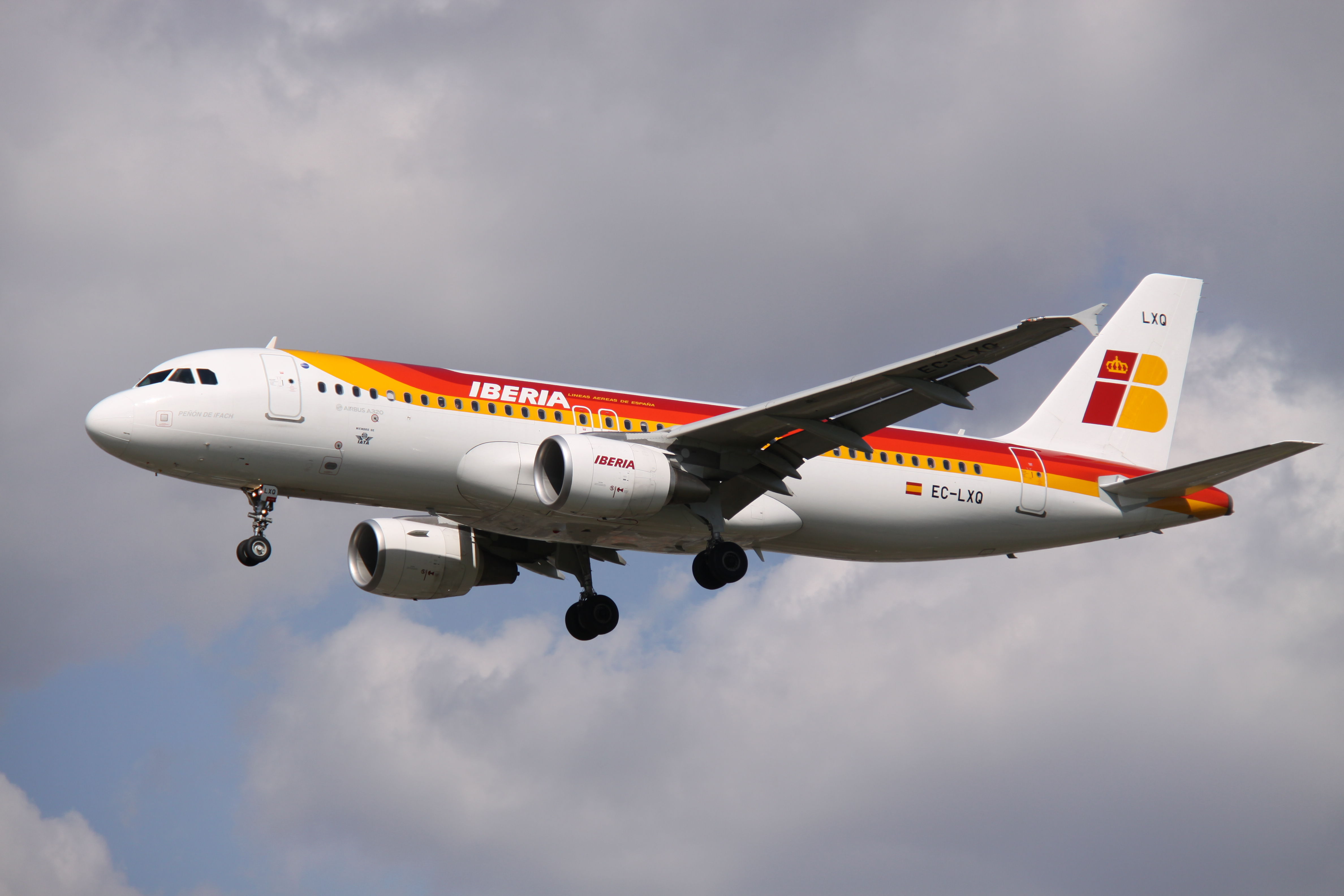 At London Heathrow